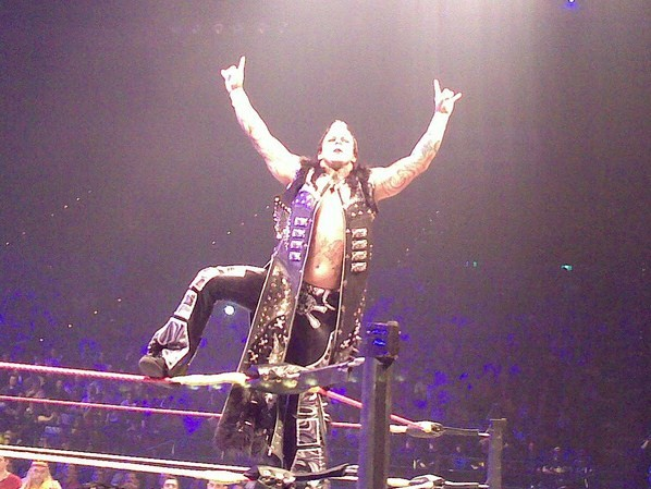 ex wwe wrestler shannon moore